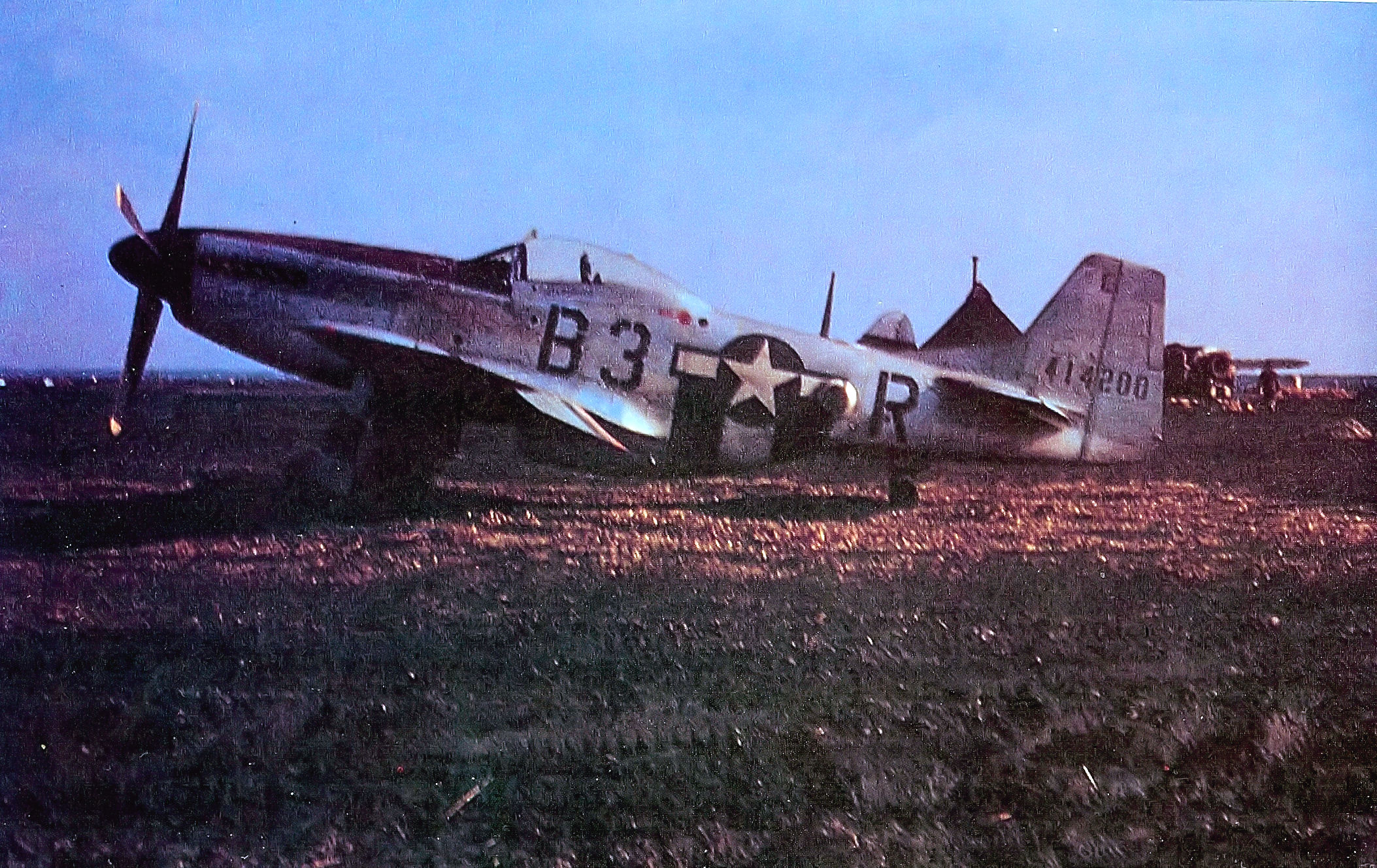 161st Tactical Reconnaissance Squadron North American F-6D-10-NA Mustang 44-14200 Le Culot Airfield (A-89), Belgium, November 1944